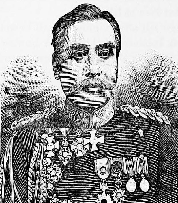 Major-General Tatsumi